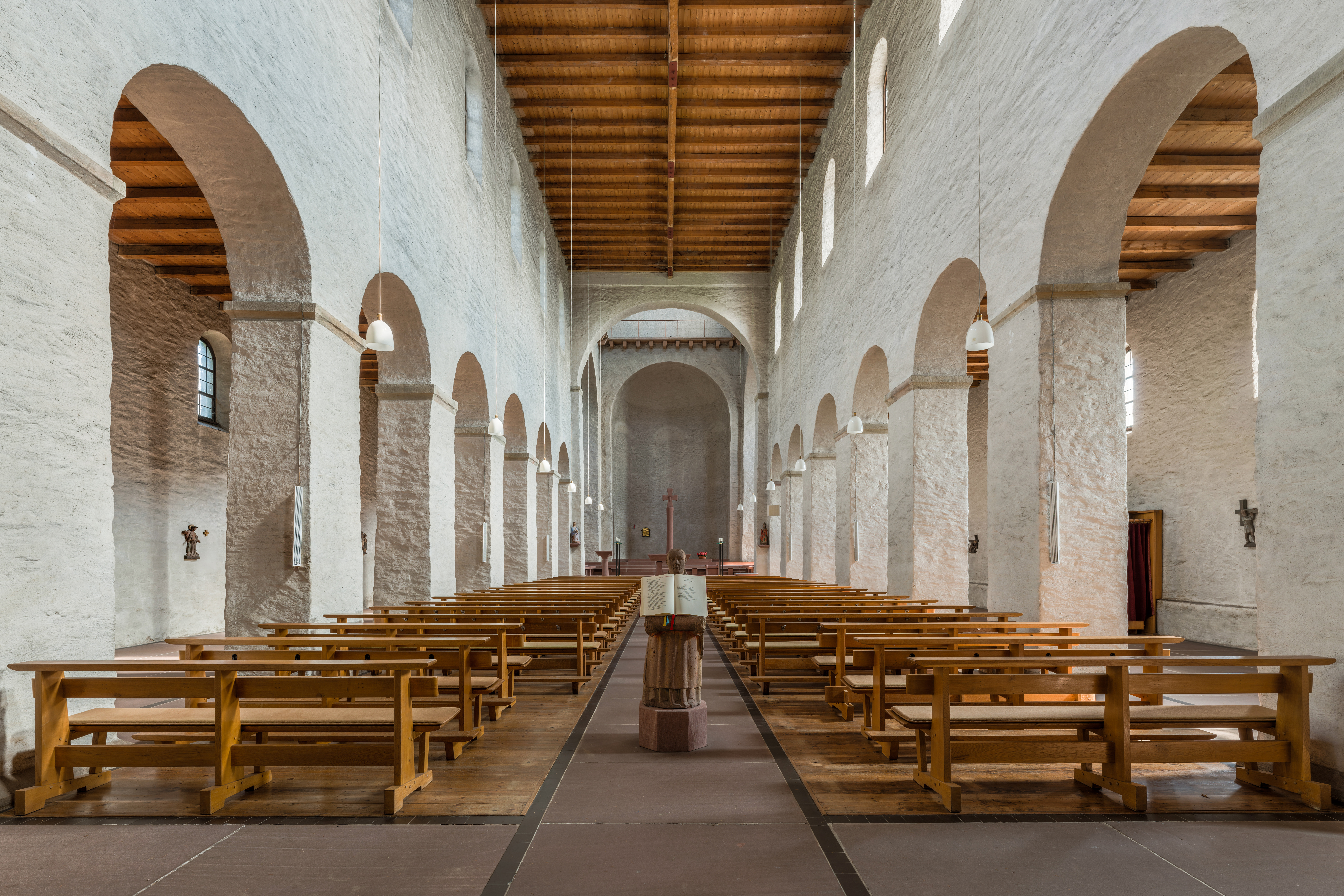 The nave of St. Johannis in Johannisberg, Geisenheim